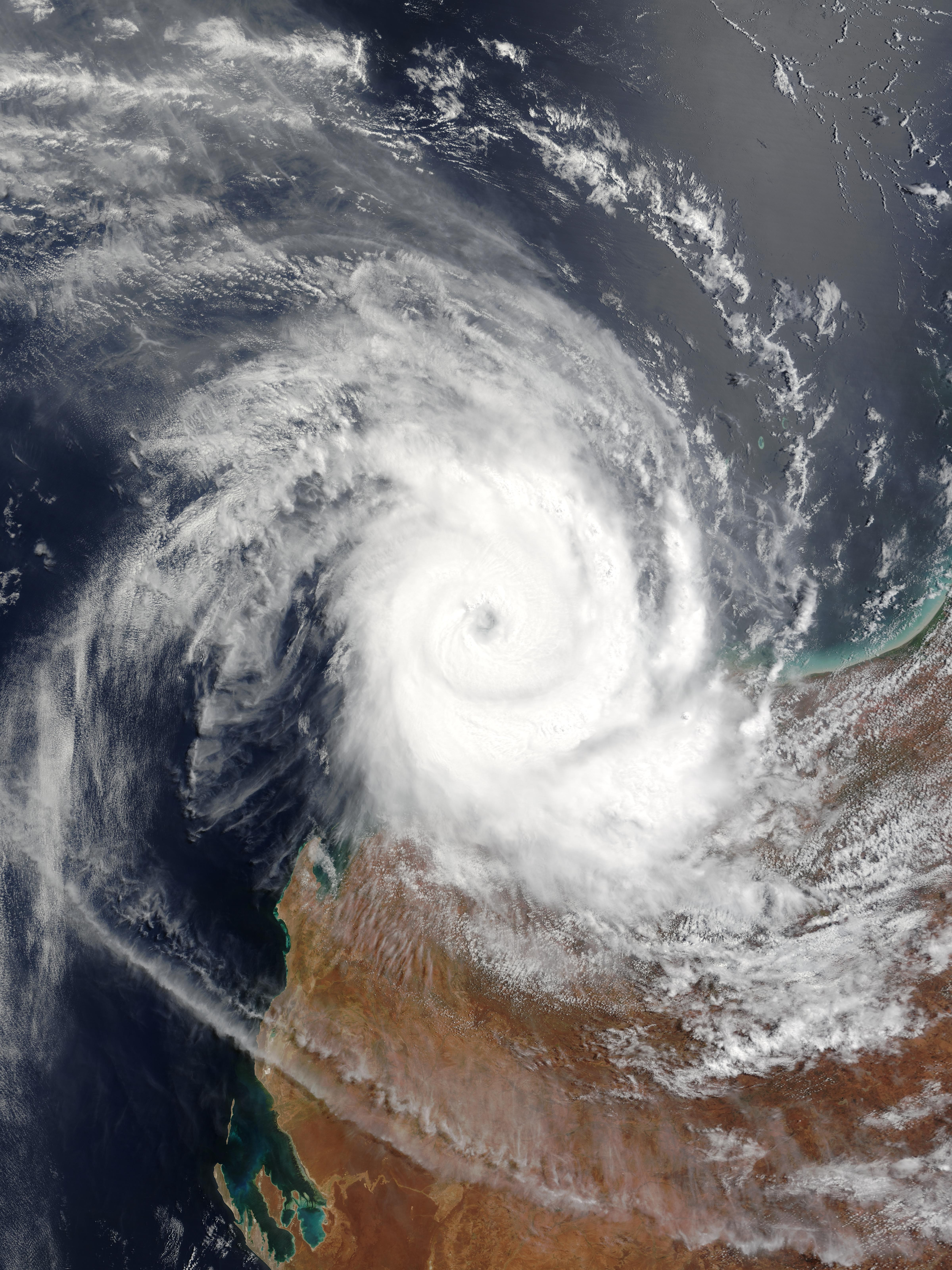 The Moderate Resolution Imaging Spectroradiometer (MODIS) onboard NASA’s Terra satellite captured this true-color image of Tropical Cyclone Monty located 165 kilometers north-west of Karratha. At the time of this image on February 29, 2004, Monty was traveling down the coast at 12 kilometers an hour. A category 4 storm, communities from Onslow to Barrow Island were on “blue alert” as they were in the path of predicted destructive winds with gusts of up to 240 kilometers an hour.